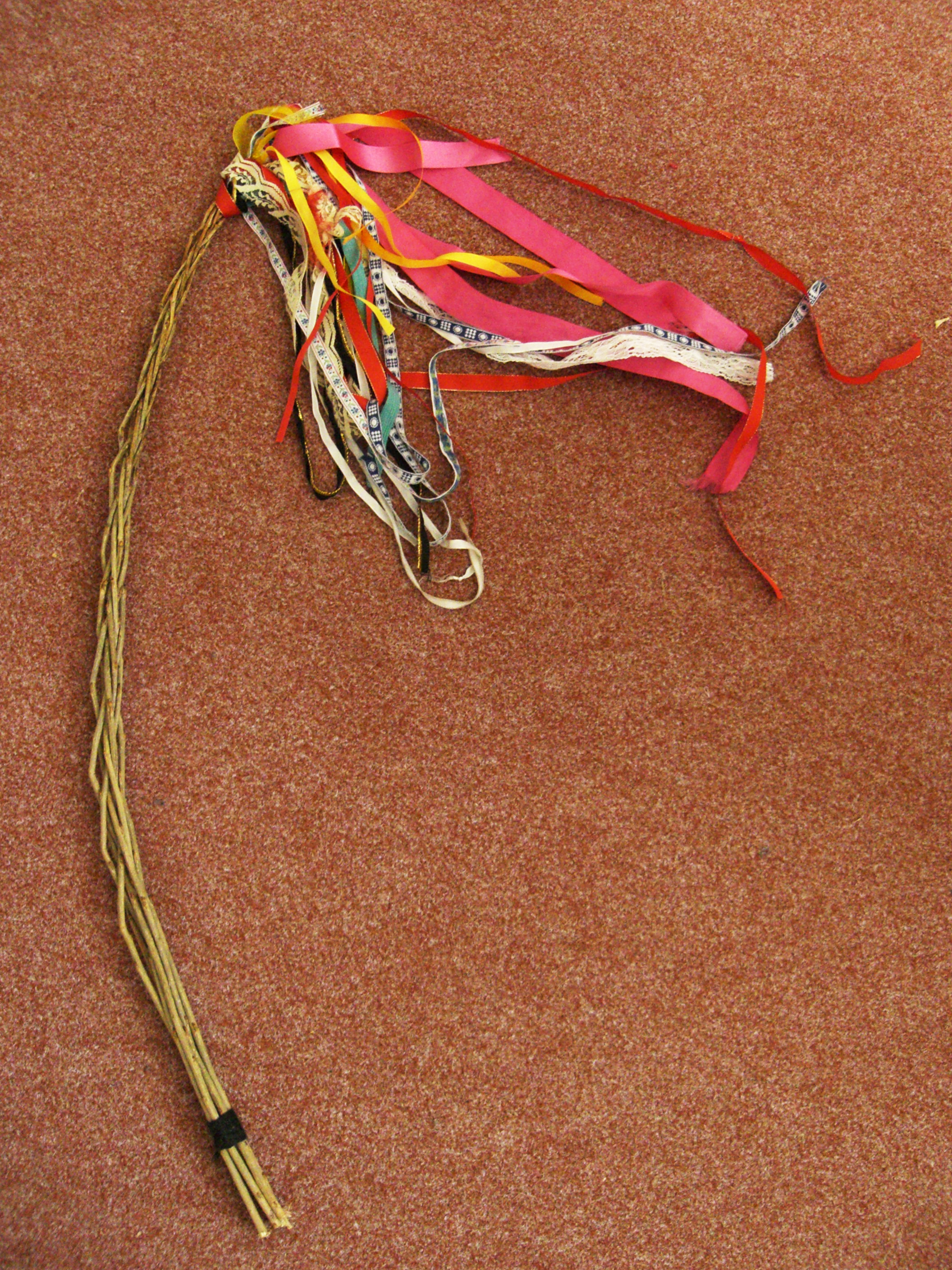 Easter knitted whip, Czech Republic.